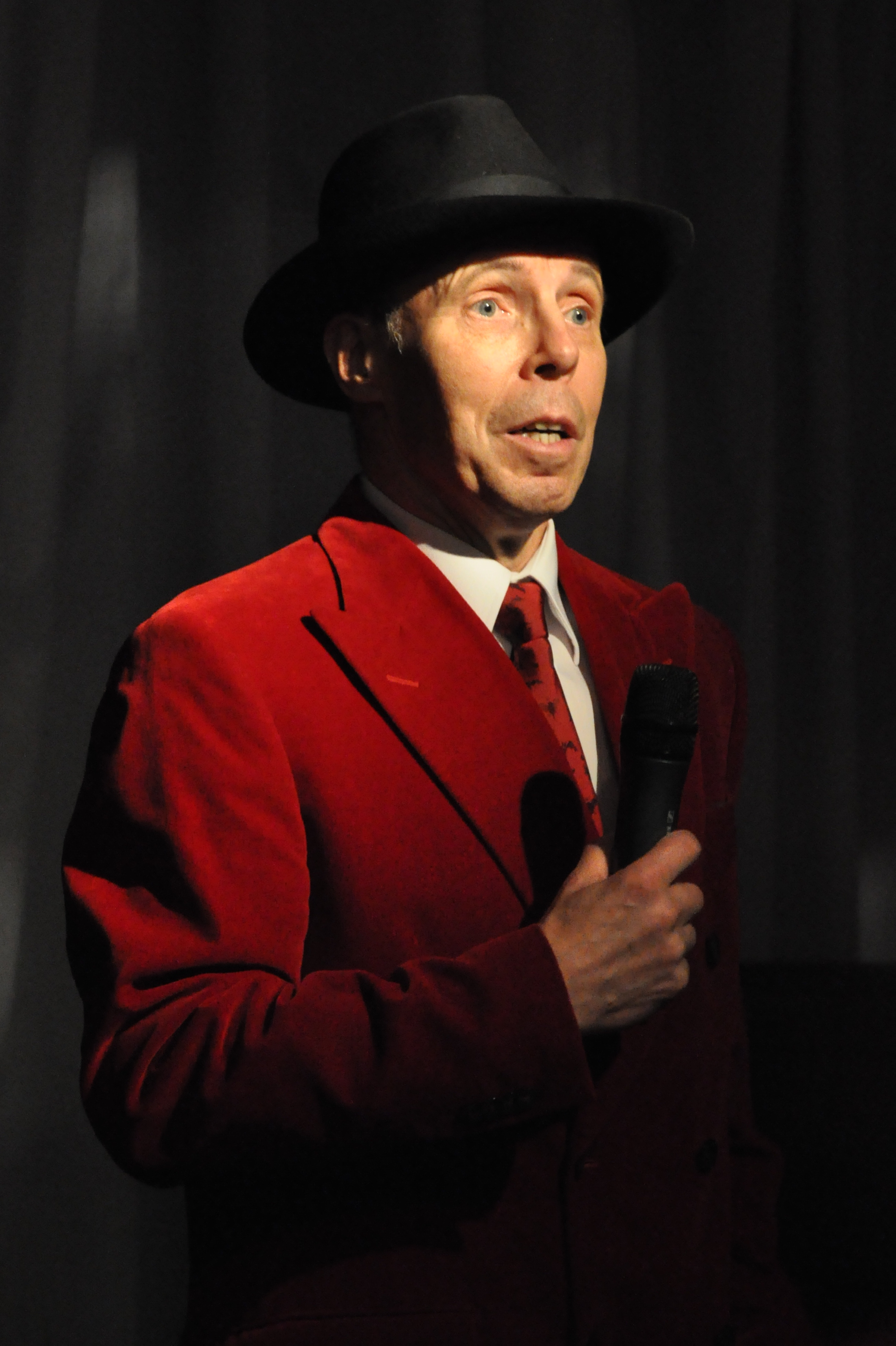 Gunther Von Hagens speaking at the premiere of the new Bodyworlds Exhibition on 24th October 2008.